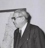 Jules Salvador Moch (born in Paris on 15 March 1893, died on 1 August 1985, age 92, in Cabris of Alpes-Maritimes) was a French politician.